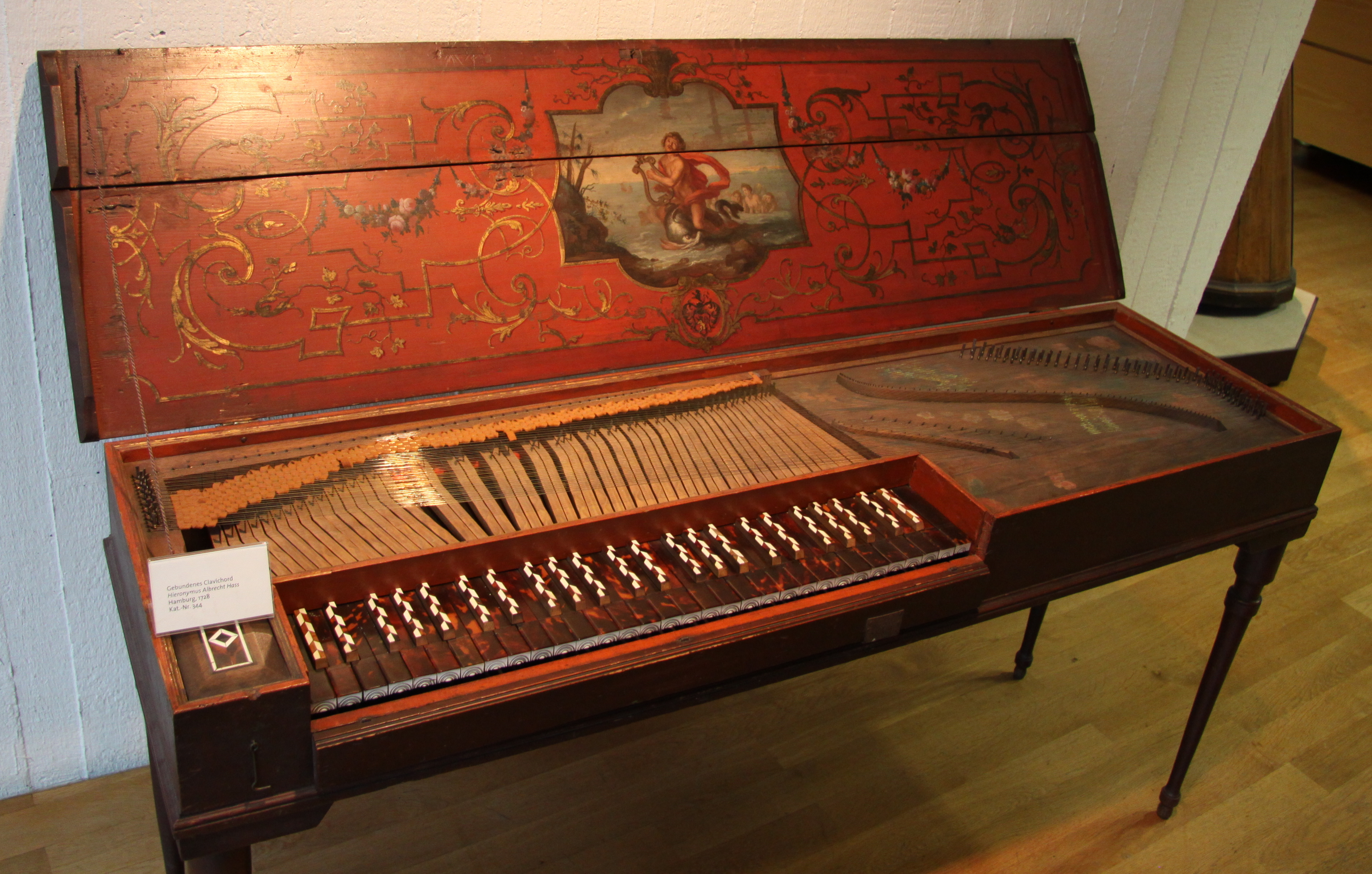 Clavichord (Hamburg, 1728) at the Music Instrument Museum, Berlin.